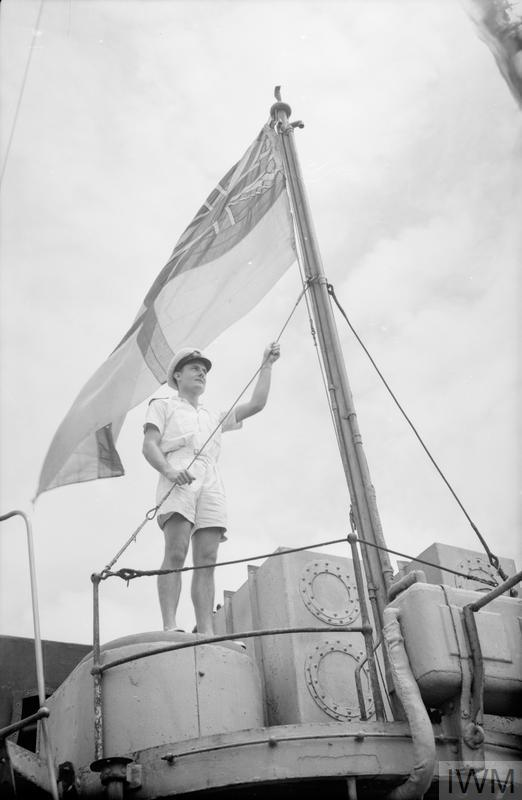 HMS FOXHOUNDS'S FINE FIGHTING RECORD FROM ICELAND TO THE BAY OF BENGAL. AUGUST 1943, FREETOWN. THE BRITISH DESTROYER FOXHOUND CLAIMS TO HAVE SET UP A RECORD BY STEAMING 240,000 MILES SINCE THE WAR BEGAN. An officer of HMS FOXHOUND, a South African, watching a British port come in sight as the destroyer completed her 240,000 miles of record steaming.